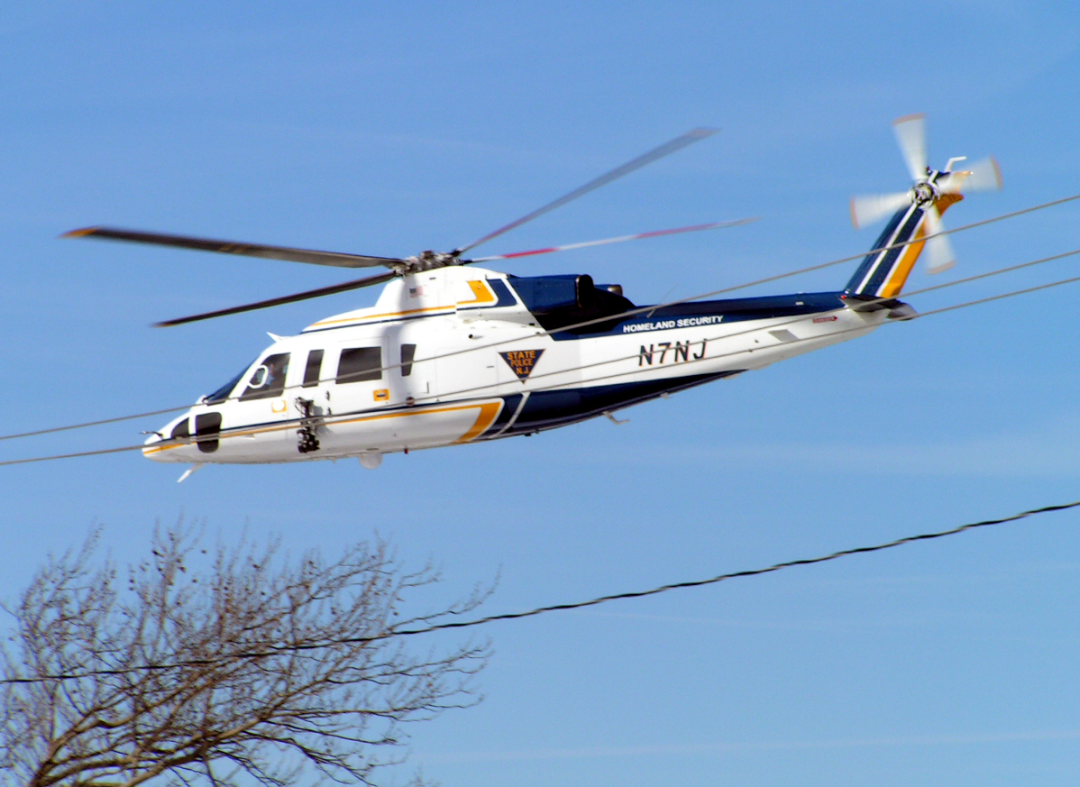 NJ State Police helicopter at Petco gas explosion. Eatontown NJ 3/4/05